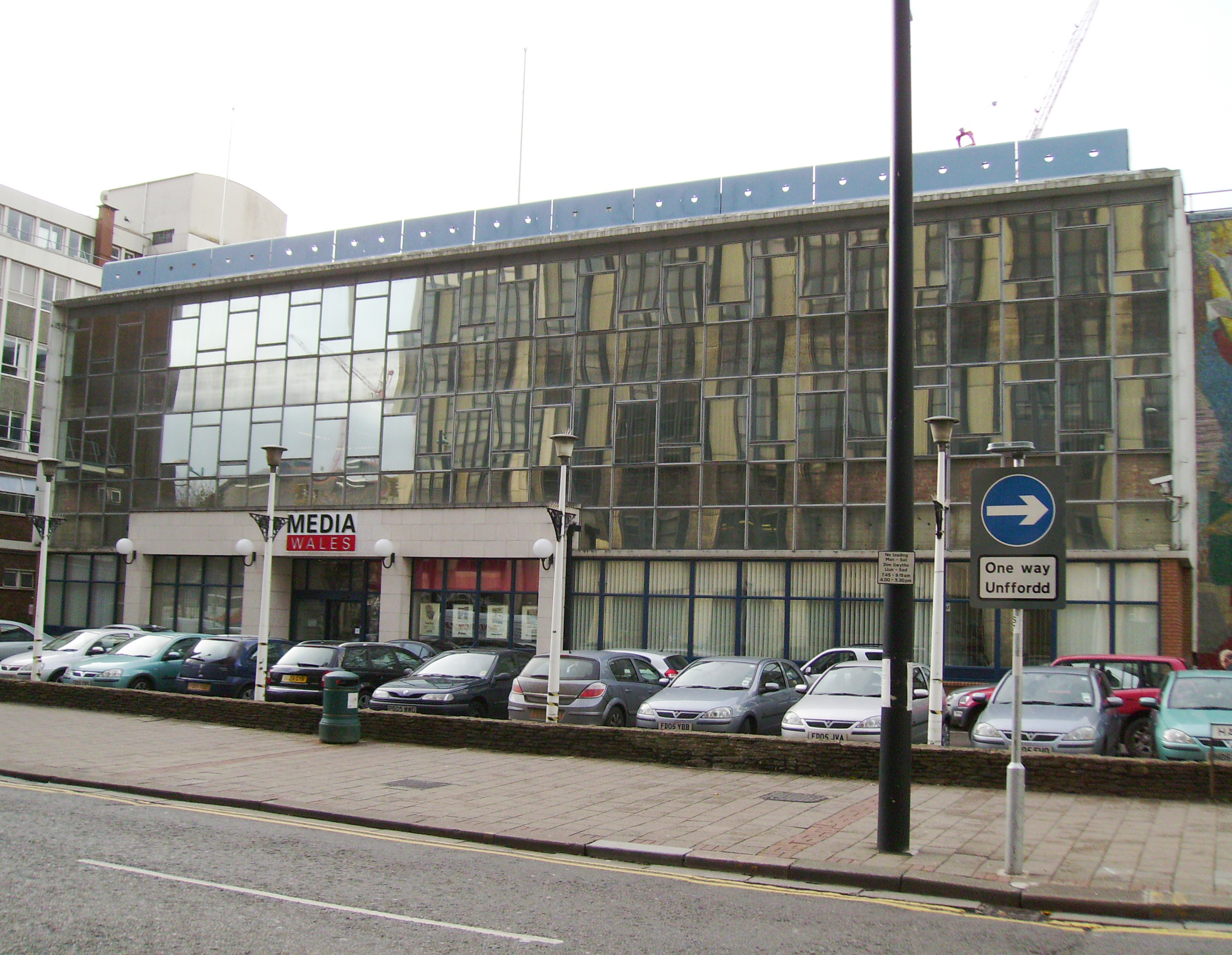 Media Wales offices, Cardiff, Wales. Dating from the late 1950s, the building was demolished in 2008.